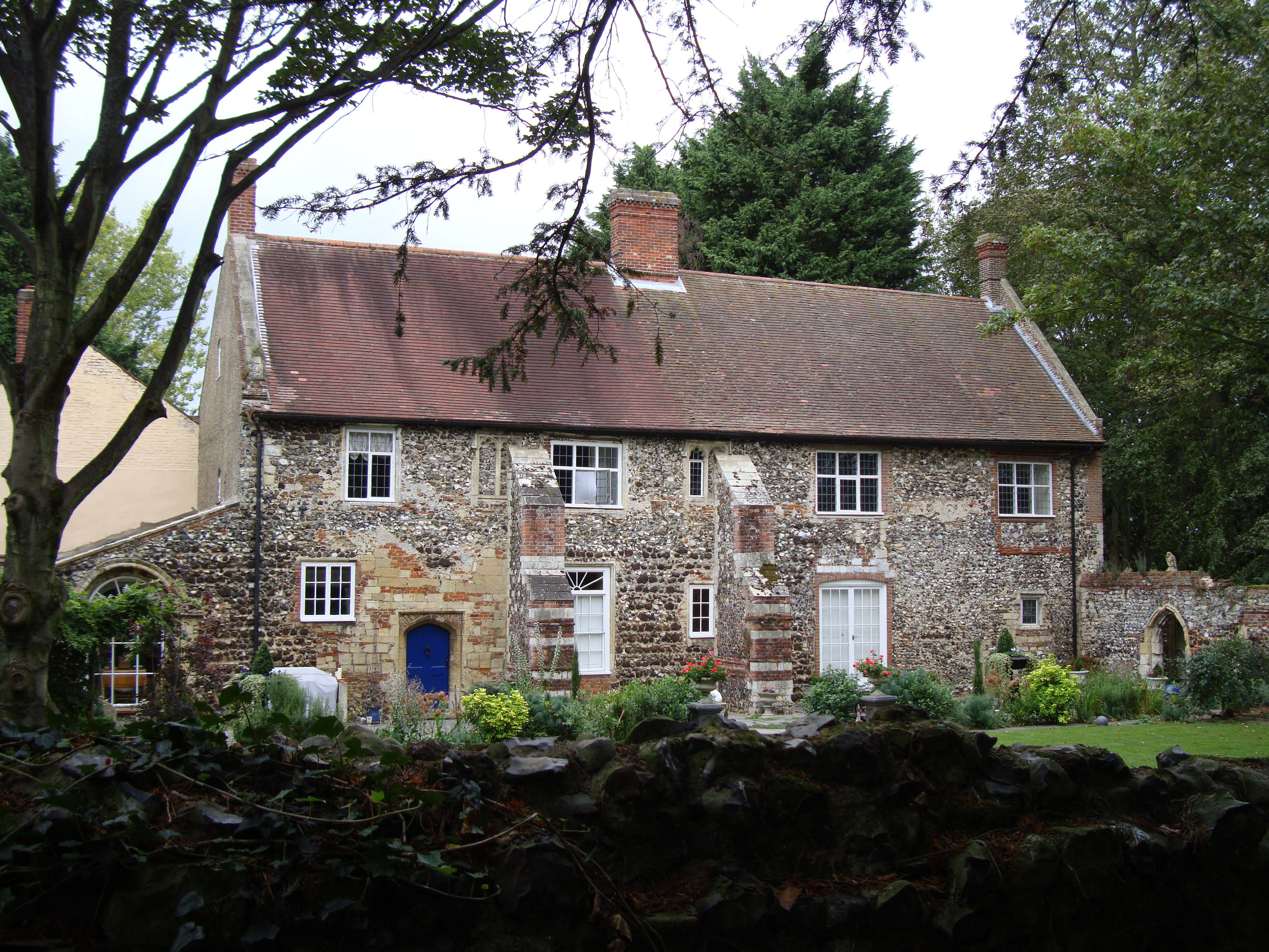 Photograph of refectory of Horsham St Faith Priory, Norfolk